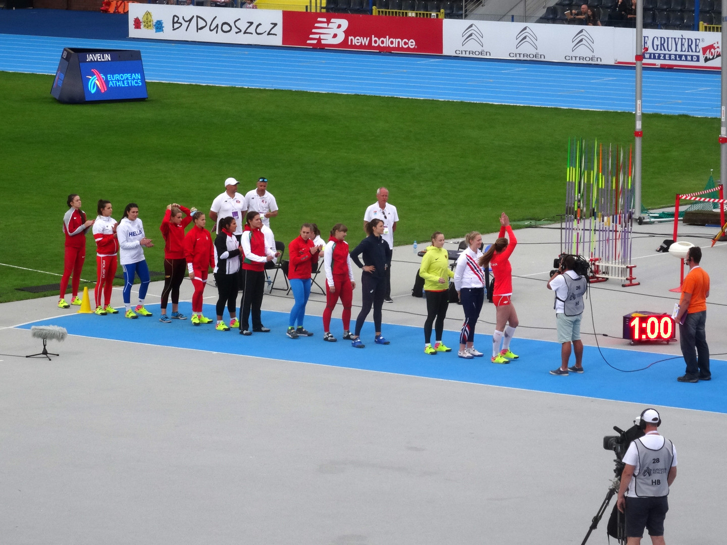 2017 European Athletics U23 Championships in Bydgoszcz Poland, javelin throw women final